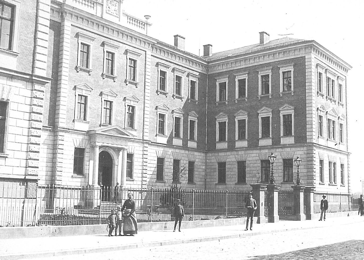 historic photography of Bamberg, Germany